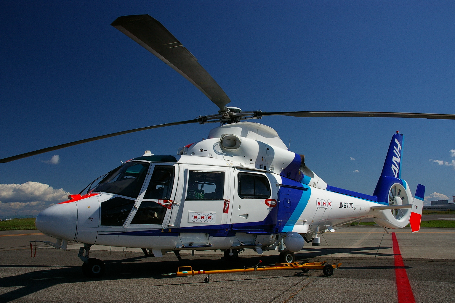 Eurocopter AS365N2, NHK All Nippon Helicopter